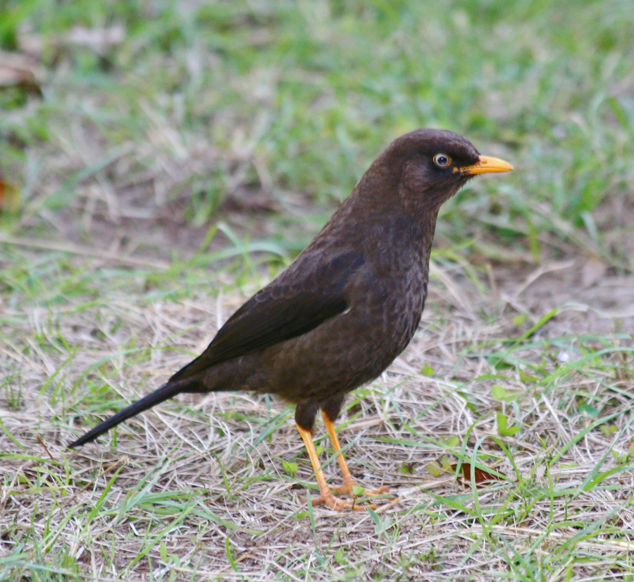 Sooty Robin photo taken in the Savegre Valley, Costa Rica.